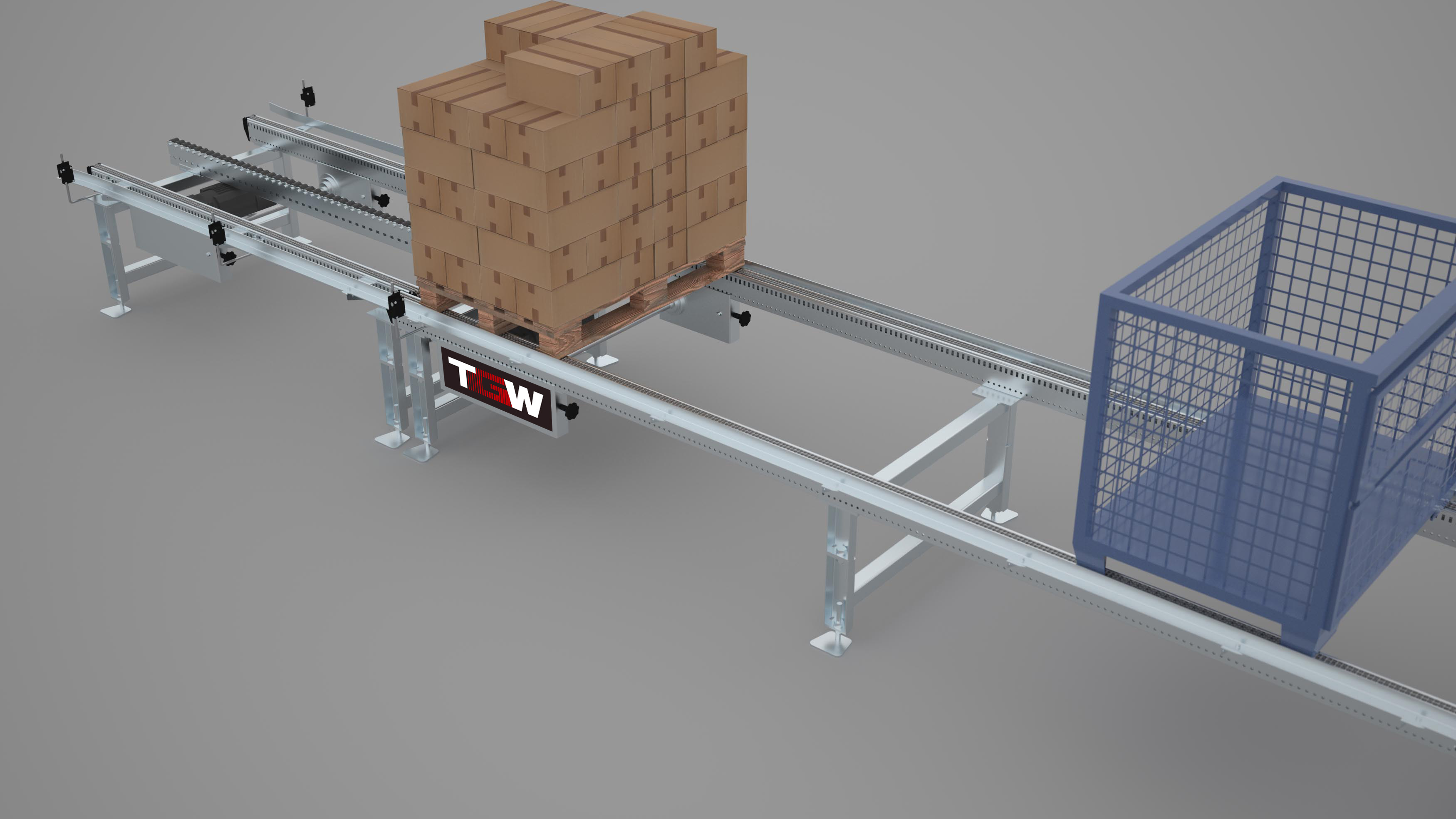 Chain conveyor for unit loads like pallets or industrial containers